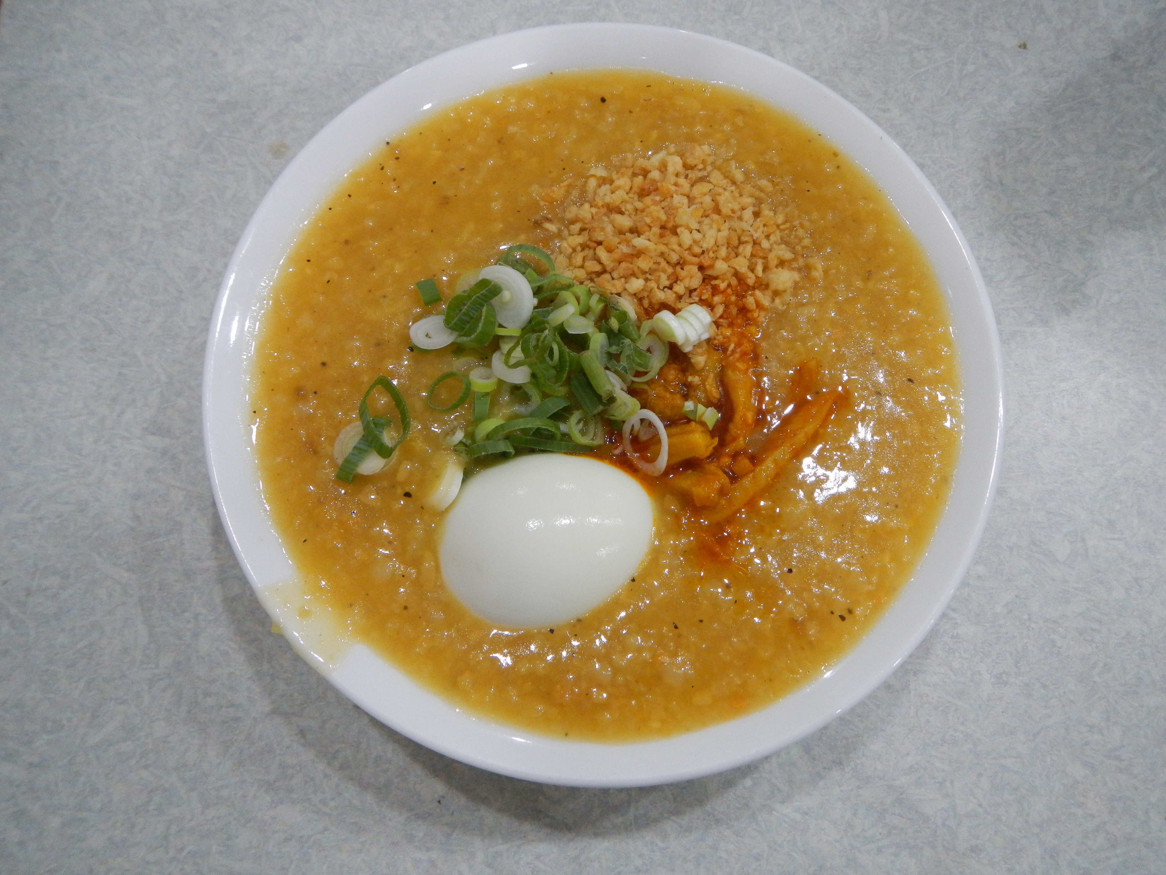 Goto beef Cuisine of the Philippines.